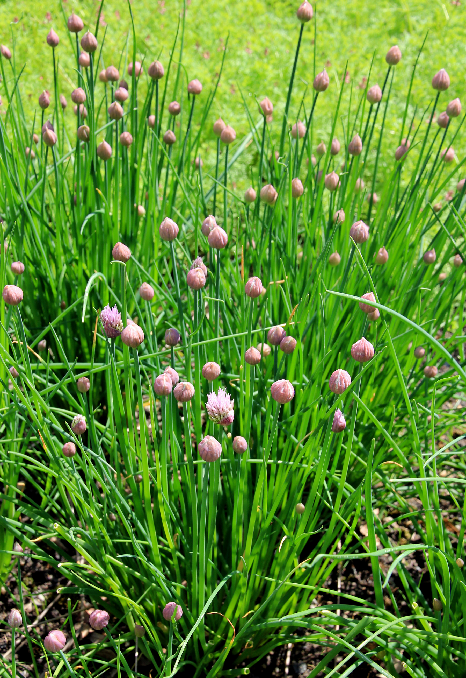 Plants Chives, (Allium schoenoprasum) from the Botanical Gardens of Charles University, Prague, Czech Republic